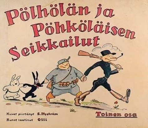 Cover of the 1929 Finnish comic book "Pölhölän ja Pöhköläisen seikkailut.". Artwork by Sven Nyström (1902-1932). The comic strip originally appeared in the magazine "Hakkapeliitta", published by the paramilitary Suojeluskunta-organization.